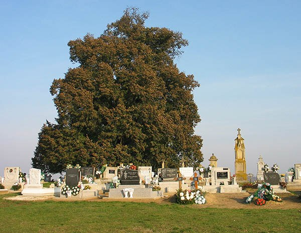 Szőkedencs, 700 years old Tilia in the cemetery, Hungary